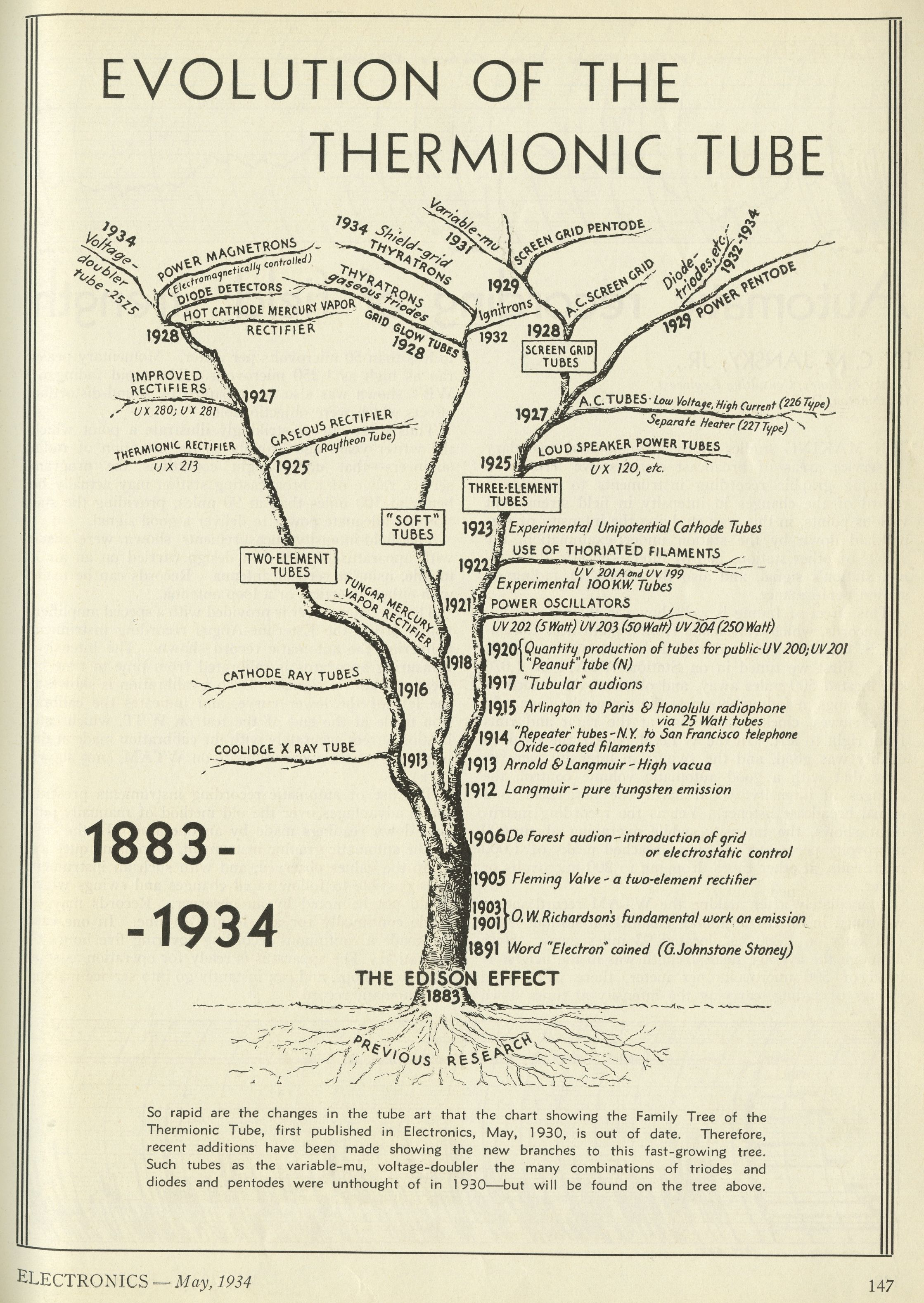 From Electronics magazine, 1934, an information diagram in the shape of a tree displaying many points of development and differentiation in vacuum tube technology during the 51-year span of 1883 and 1934. The points of divergence indicated by branches on the tree express the historical relationships between many different kinds of tubes that share common origins, including X-ray tubes, Cathode Ray tubes, and tube types used for different kinds of sound amplification applications.